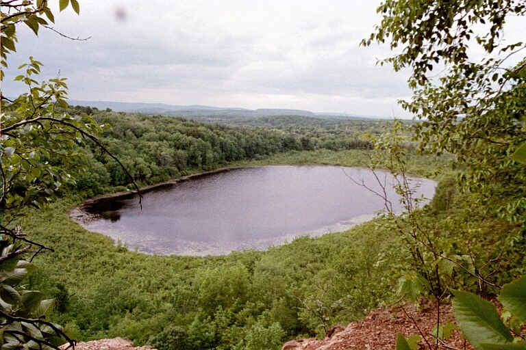 Snake Pond from East Mountain (Hampden County, Massachusetts. by Paul Gagnon. For East Mountain.